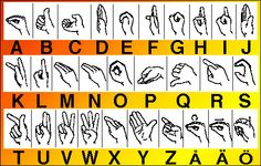 Swedish Sign Language Alphabet Symbols